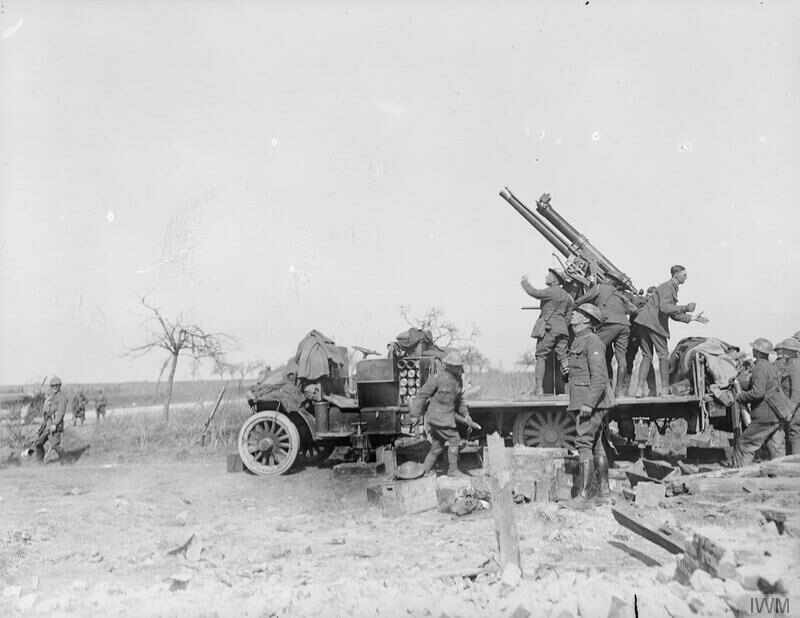 IWM collections : "THE GERMAN SPRING OFFENSIVE, MARCH-JULY 1918. 13 pounder 9cwt anti-aircraft gun on Mark IV Motor lorry mounting in action at Omiecourt. 24 March 1918.